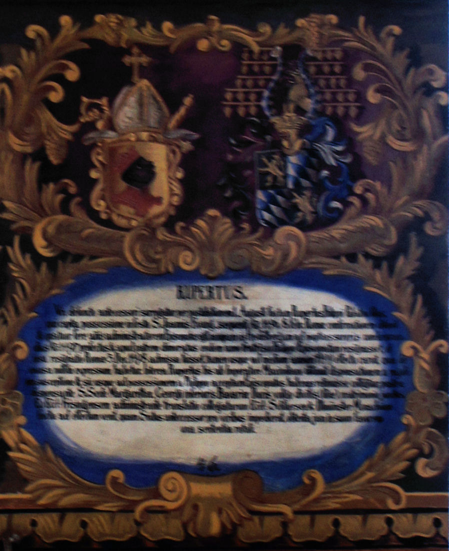 Wappentafel von Ruprecht von der Pfalz, Fürstbischof von Freising, im Fürstengang zwischen Fürstbischöflicher Residenz und Freisinger Dom. Links das geistliche, rechts das persönliche Wappen, darunter ein lateinischer Text mit kurzer Biographie.